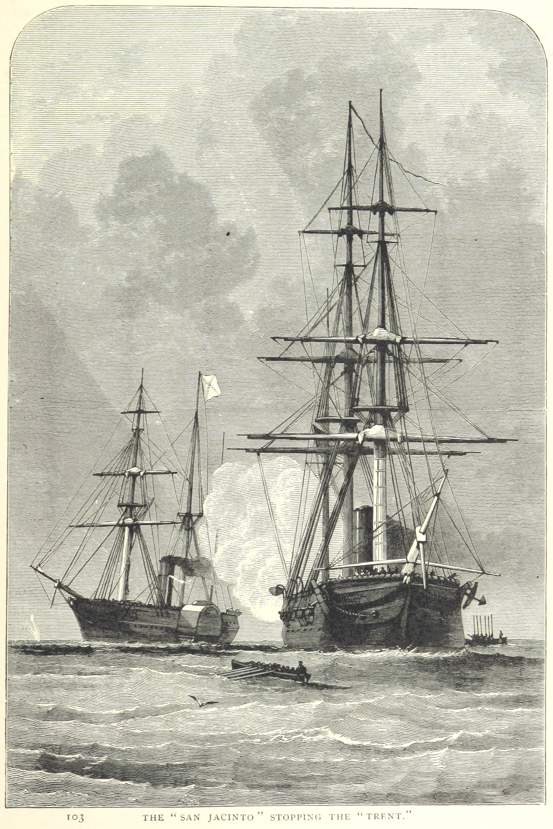 The USS San Jacinto (right) stops the British packet steamer RMS Trent. When the San Jacinto removed two Confederate diplomats from the Trent, it touched off the Trent Affair, the closest that Great Britain came to joining the American Civil War.